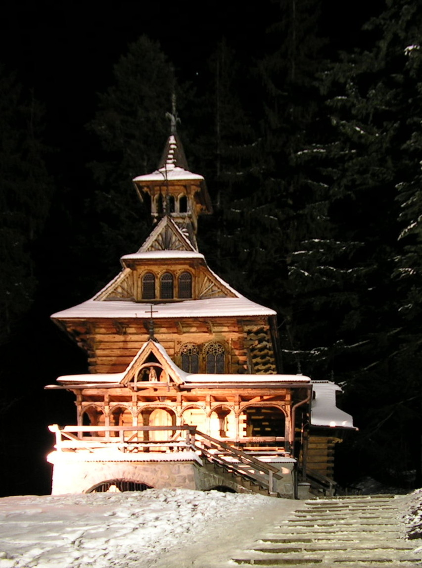 The Chapel in Jaszczurówka, seen at night in winter.